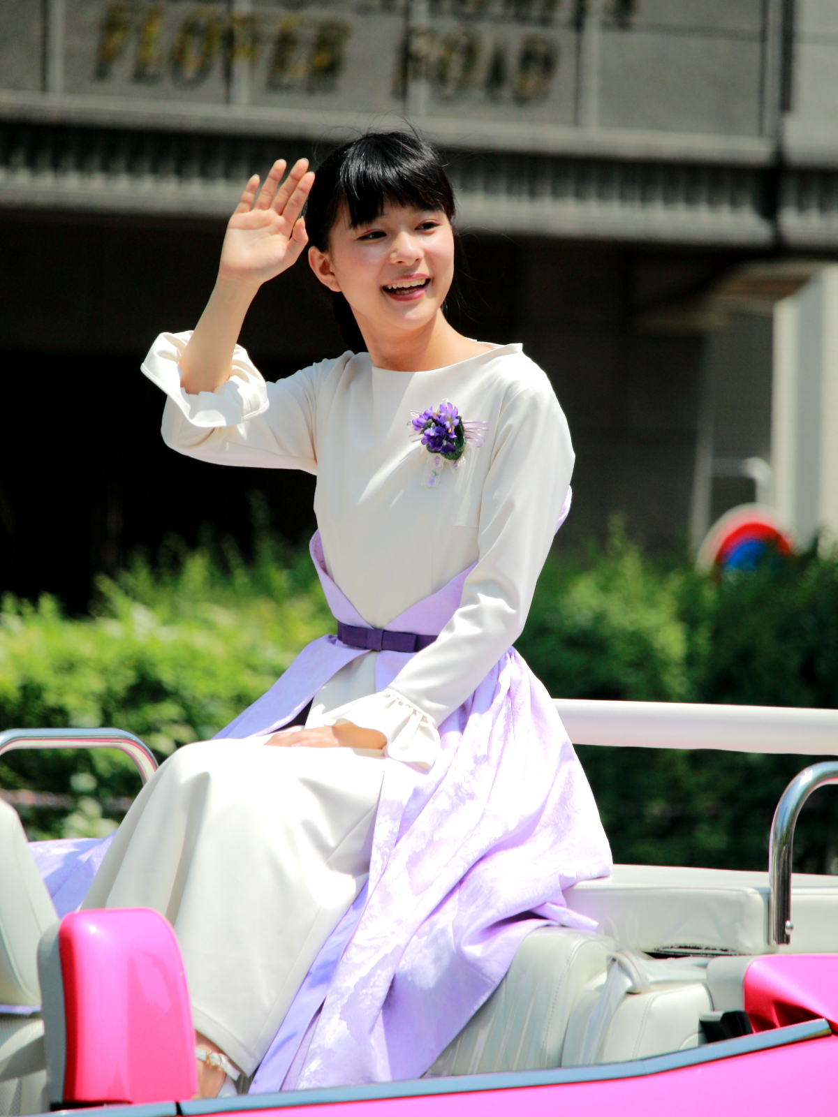 Kyoko Yoshine in Kobe Matsuri (Festival) 2016.